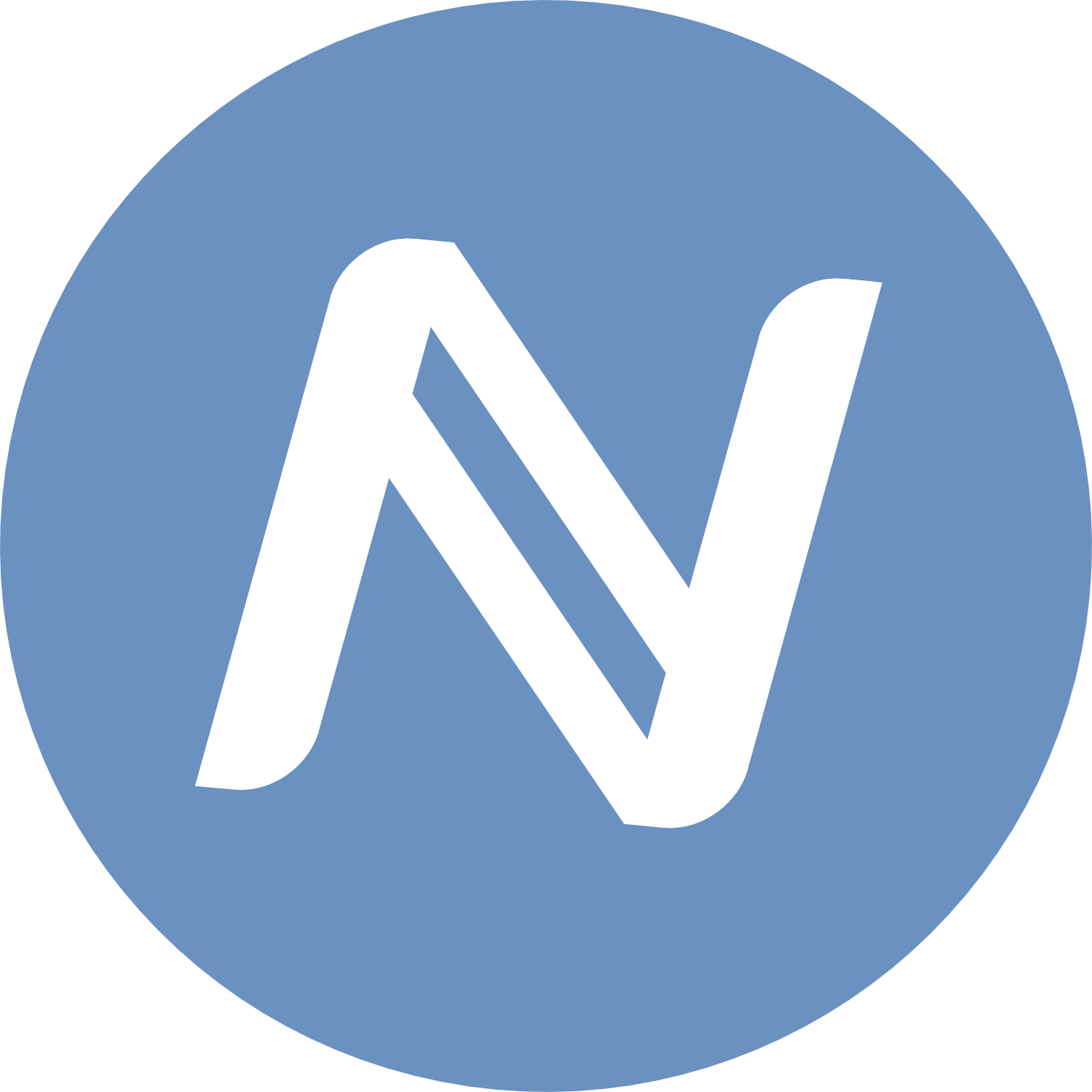 Simple Namecoin Logo (no text).